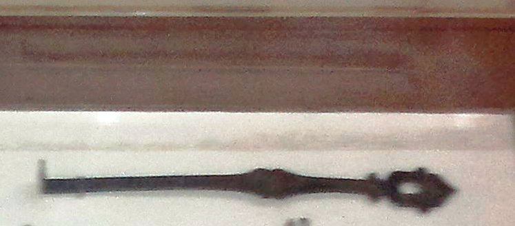 Key of Baku fortress (silver). Museum of History of Azerbaijan, Baku.